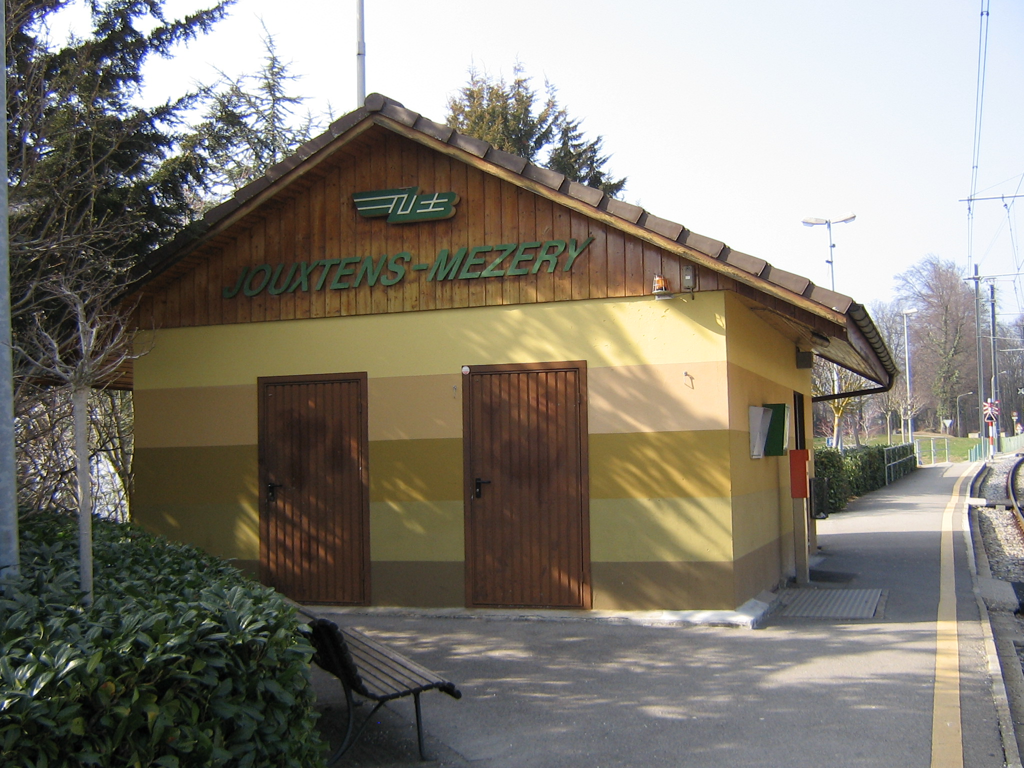 View of the LEB railway station of Jouxtens-Mézery.